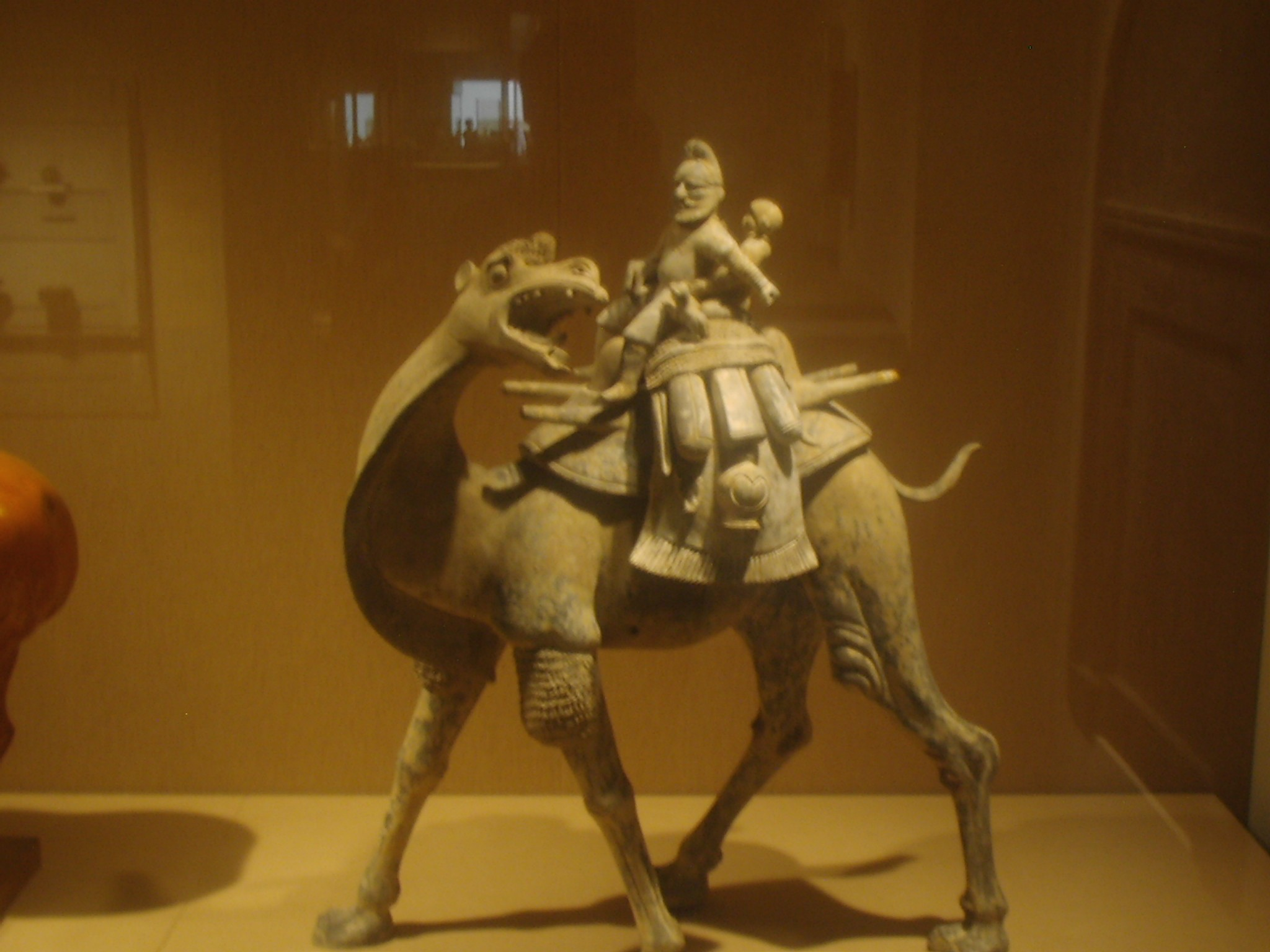 A Chinese earthenware model of a camel with riders, from the Tang Dynasty (618–907 AD), dated to the late 7th century.